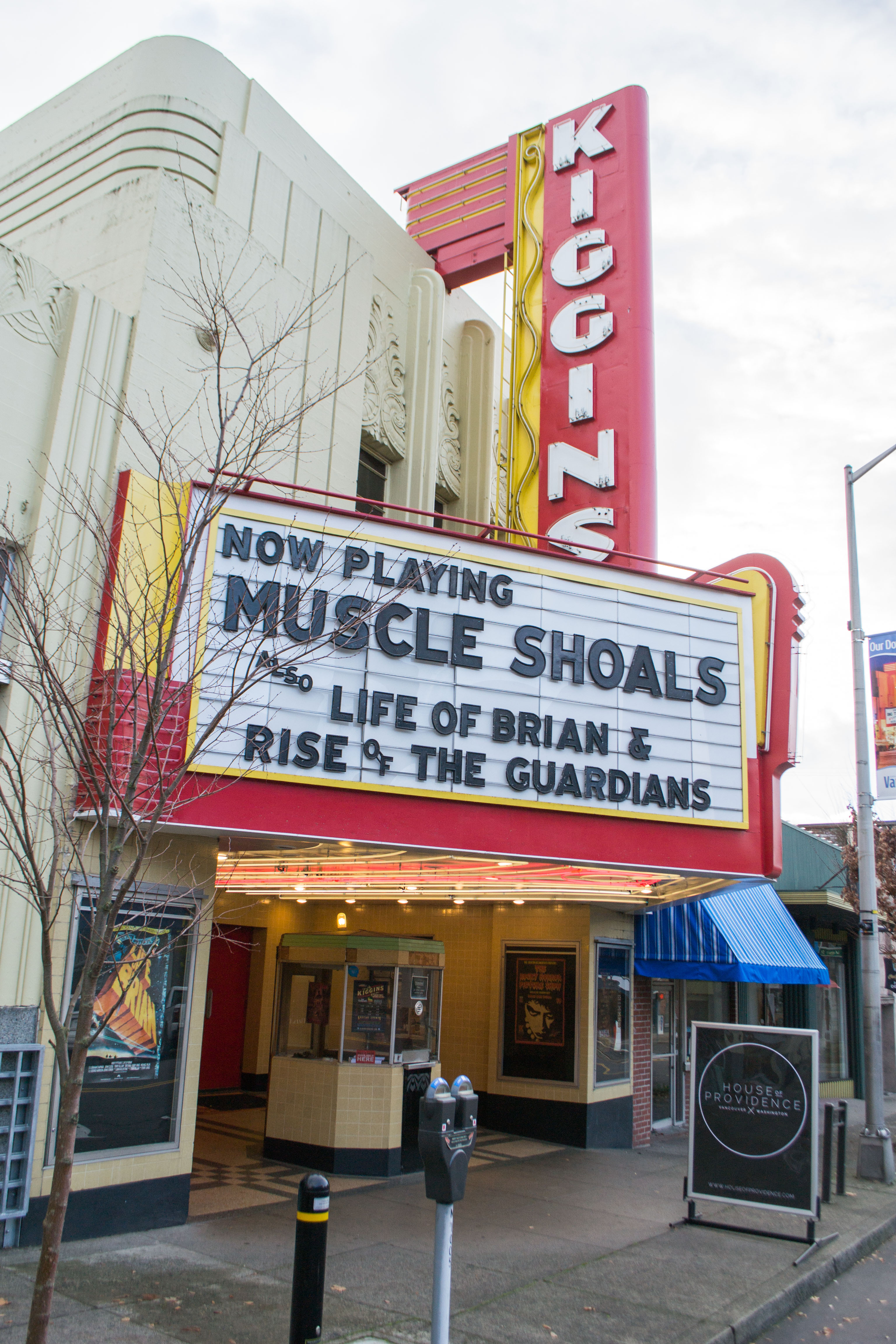 The Kiggins Theatre in Vancouver, Washington